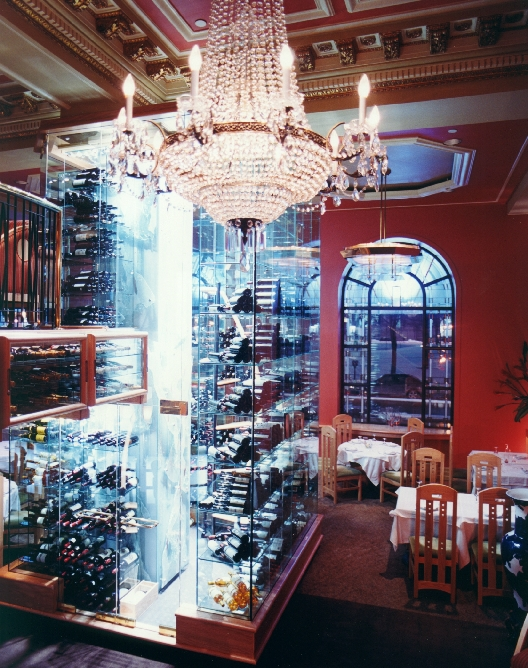 Restaurant Le Piment Rouge, located in Le Windsor, Montreal, Canada